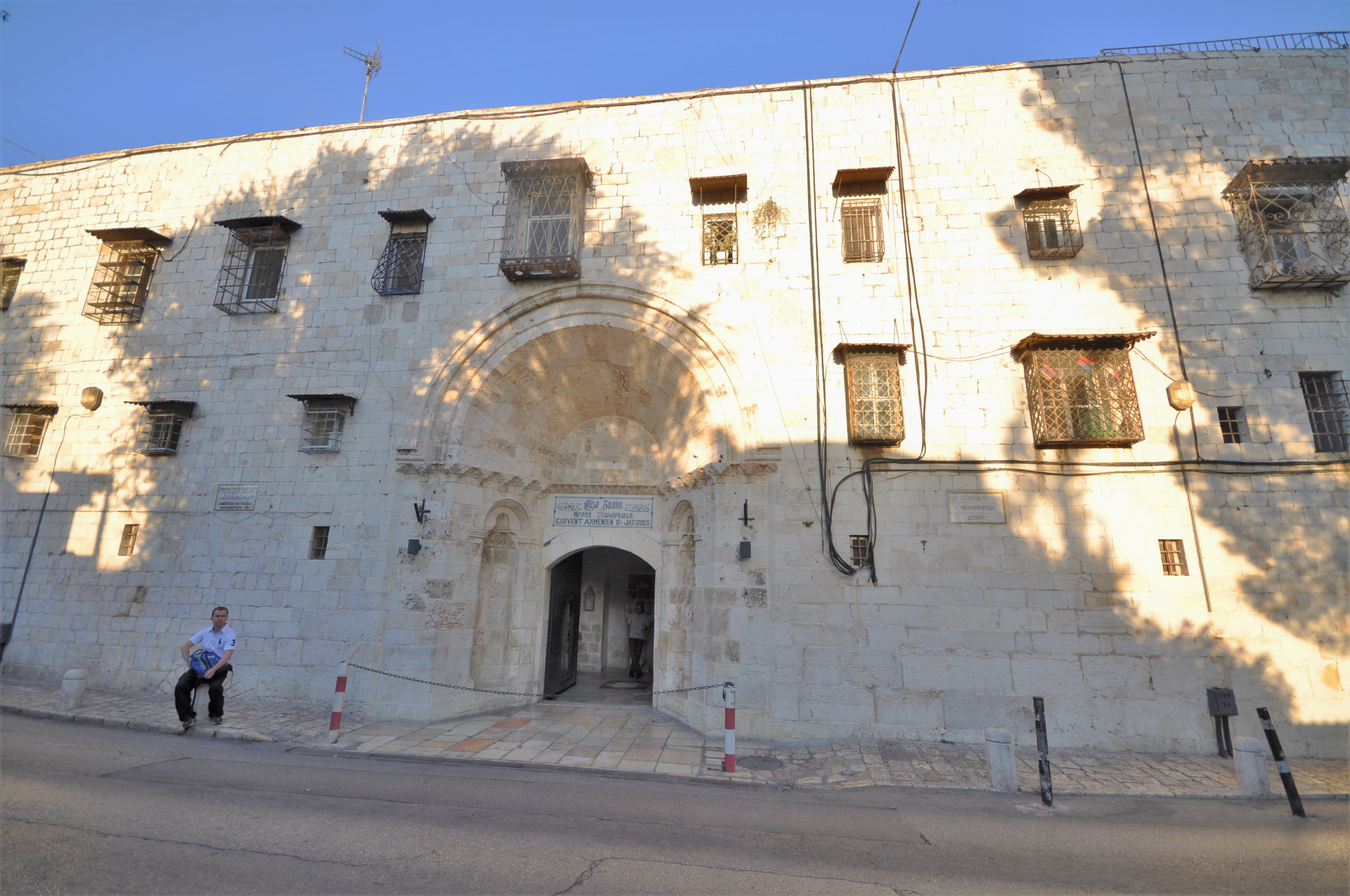 The Armenian Patriarchate of Jerusalem also known as the Armenian Patriarchate of St. James (Armenian: Առաքելական Աթոռ Սրբոց Յակովբեանց Յերուսաղեմ) is located in the Armenian Quarter of Jerusalem. The Armenian Apostolic Church is officially recognised under Israel's confessional system, for the self-regulation of status issues, such as marriage and divorce. Archbishop Nourhan Manougian, Grand Sacristan and Patriarchal Vicar of the Patriarchate, was elected as the 97th Armenian Patriarch of Jerusalem on January 24, 2013. Manougian succeeds Archbishop Torkom Manoogian, who died on October 12, 2012 after serving 22 years as the 96th Armenian Patriarch of Jerusalem. The Patriarch, along with a Synod of seven clergymen elected by the St. James Brotherhood, oversees the Patriarchate's operations. As a result of the persecution of Armenians by Turkey during World War I, the Armenian population of Jerusalem reached 25,000 people. But political and economic instability in the region have decimated the number. In 2001, there were about 2,500 Armenians living in Jerusalem, most of them living in and around the Patriarchate at the St. James Monastery, which occupies most of the Armenian Quarter of the Old City. A few thousand live in Jaffa, Haifa and Nazareth, and only a handful in the Palestinian Territories. Most Armenians living previously in the West Bank, have left the country. In Jerusalem the Armenian community continues to follow the Julian calendar, unlike the rest of the Armenian Church and other Eastern Orthodox Churches which follow the Revised Julian calendar